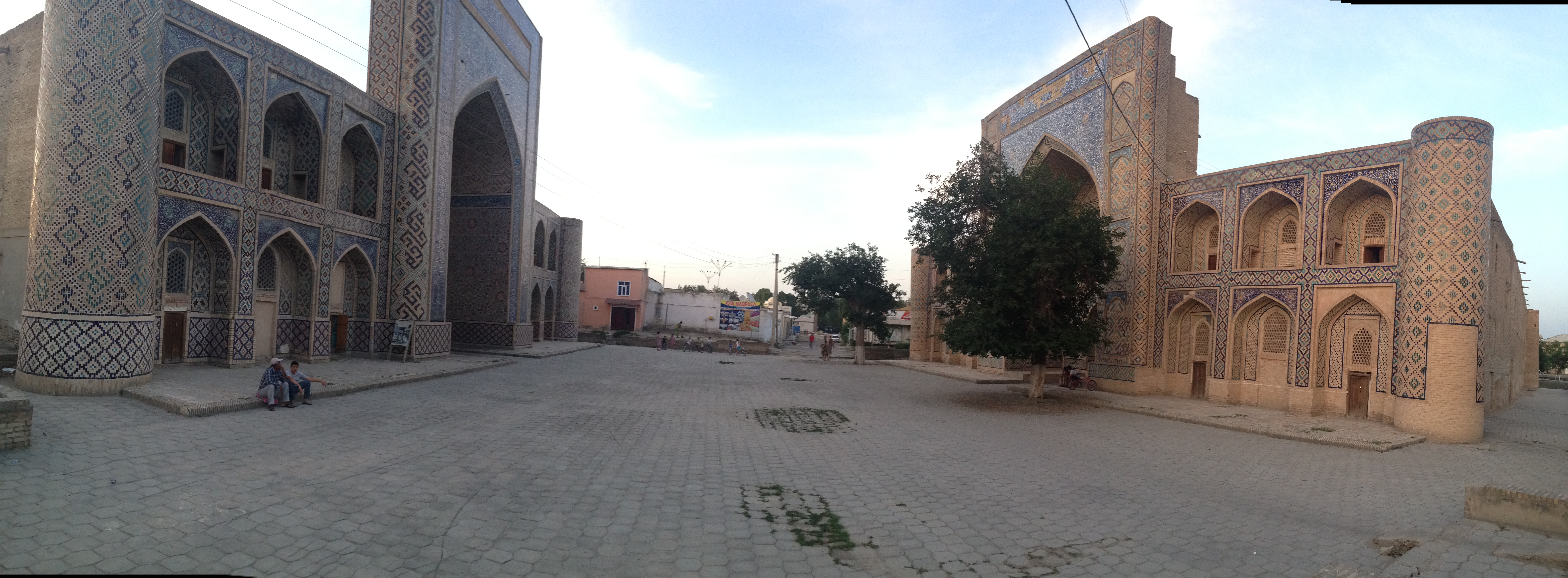 Kosh madrasa